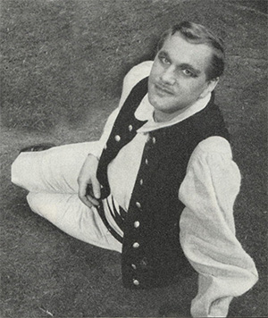 Ragnar Ulfung in the opera The Bartered Bride. Stora Teatern, Gothenburg, Sweden